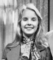 Cast photo from the daytime drama One Life to Live. Julia Montgomery